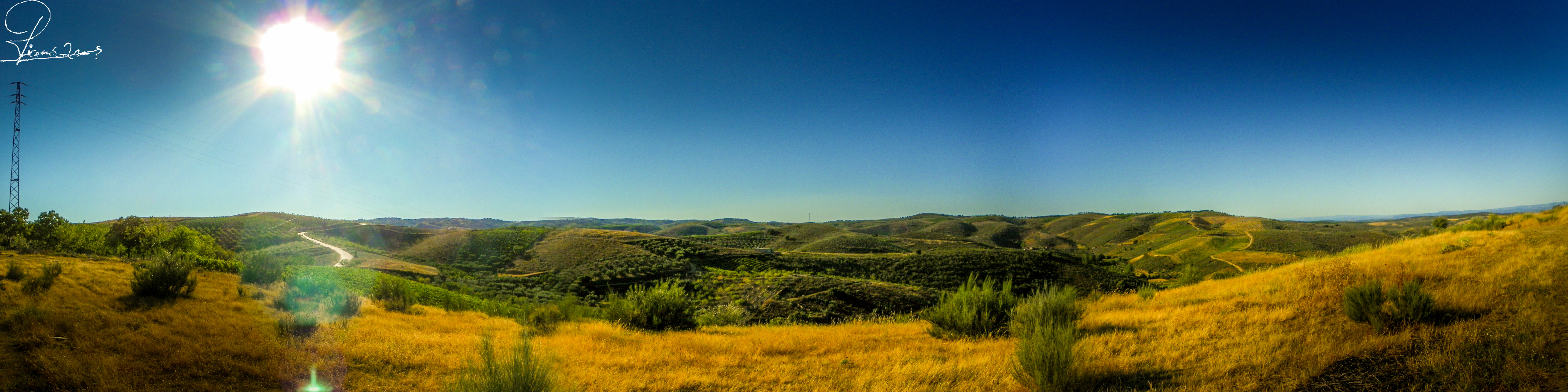 Canaveses Village